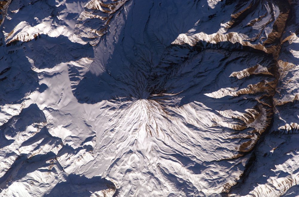 Summit Crater of Mount Damavand, Iran. Image description here